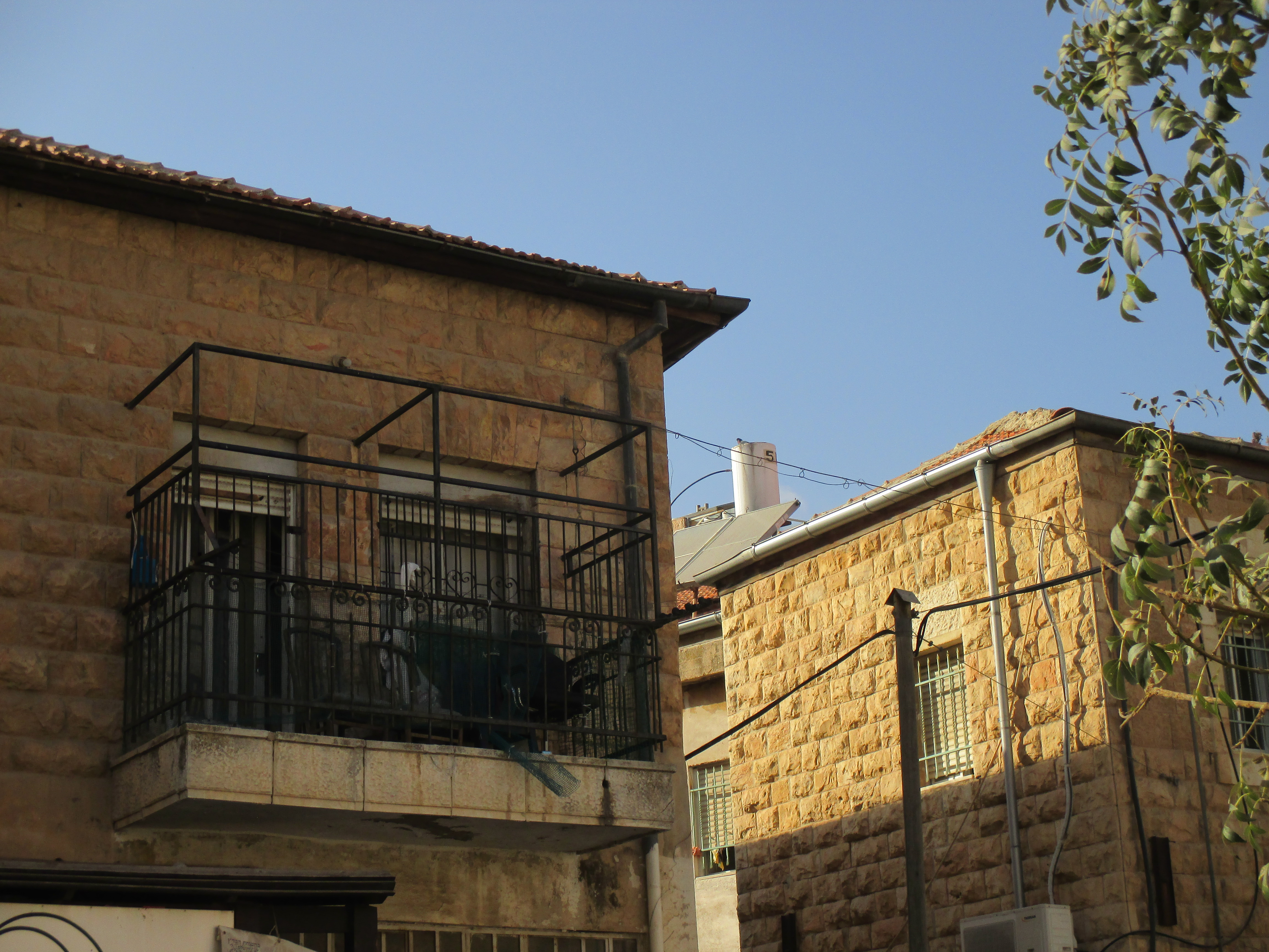 Jerusalem, 16 Yosef Ben Matityahu st